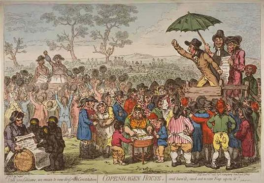 Political cartoon of John Thelwall